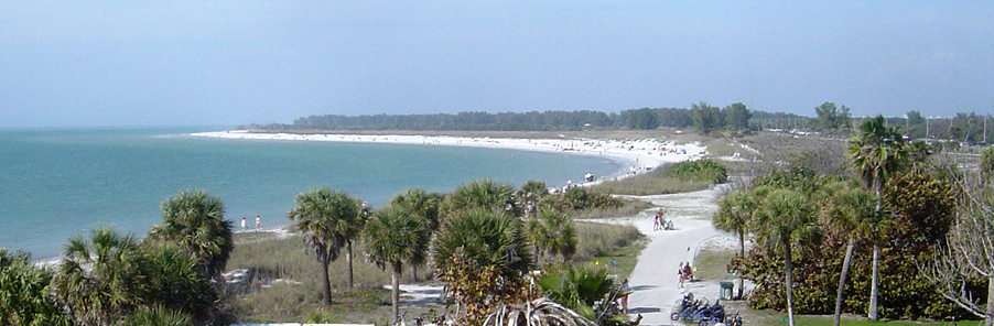 Fort De Soto Park, Florida.